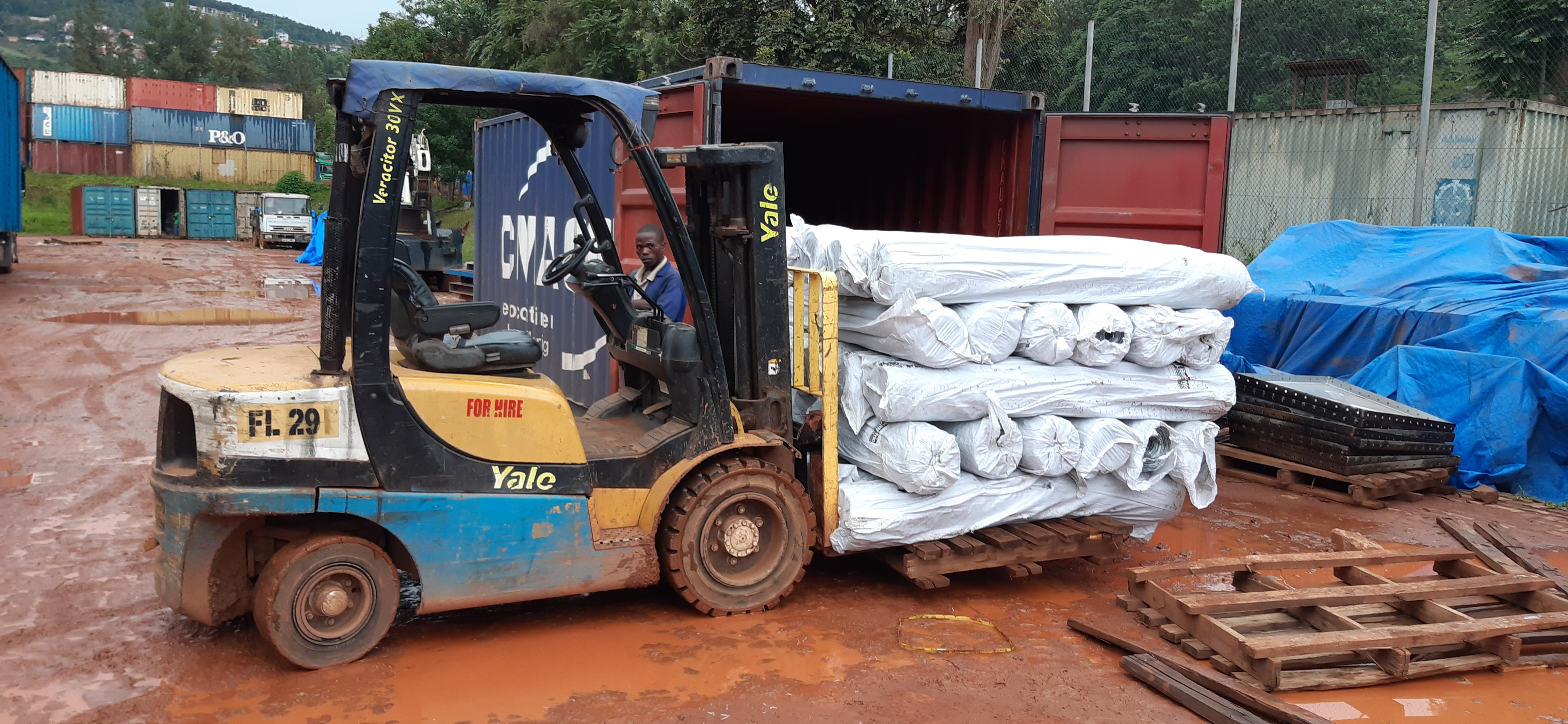 Material lift at MAGERWA warehouse lifting goods This is an image with the theme "Africa on the Move or Transport" from: Rwanda